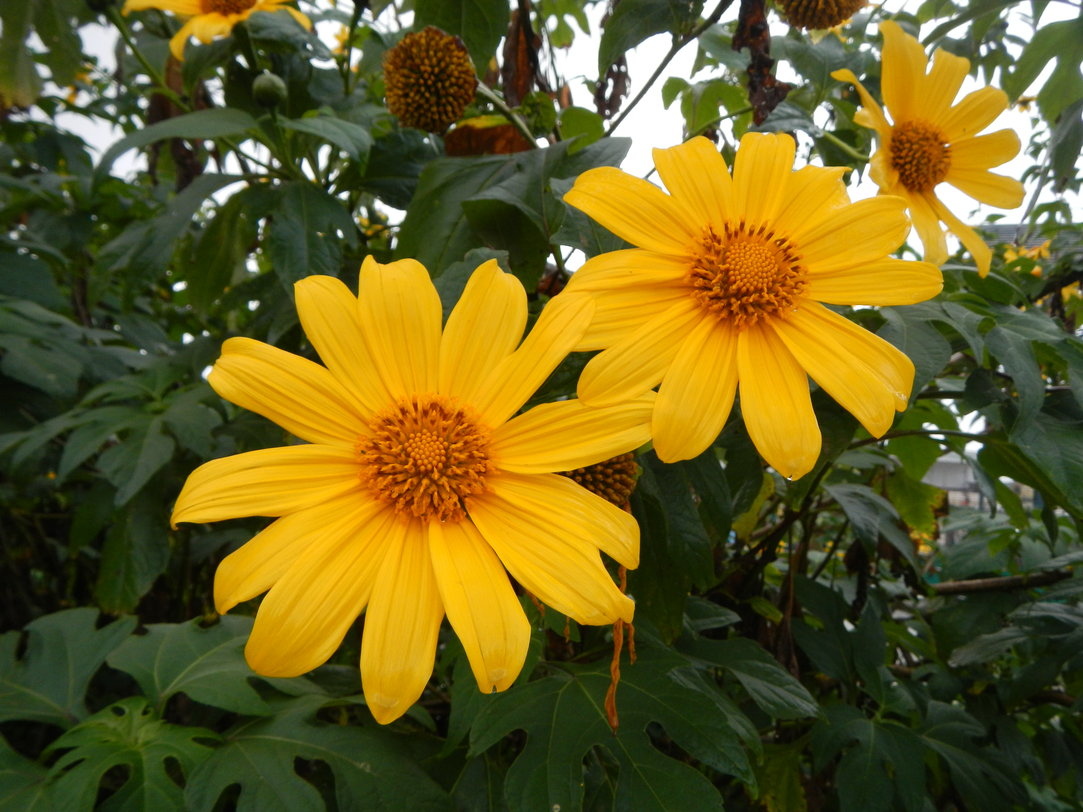 Upload Wizard photos of - the sunflowers along the - foggy view of Tuba, Benguet Town Proper and nearby barangays, Sitio Bontiway, Poblacion, (Details -- the Tuba Public Market beside the Covered Basketball Multi-Purpose Court, Barangay Hall of Poblacion, Senior Citizen's Building, Strawberry Day Care Center, Tubencoga Office, -- Tuba Town Proper, Centro, Poblacion, Product Display Center, Tuba Municipal Hall Complex, Police Station, - scenery, panoramic, landscapes of Tuba mountains and hills, with panoramic view of Baguio City houses and City Proper in the mountains, beside the - Conversion of Saint Paul Parish Church of Tuba (F-1975), Tuba 2603 Benguet Titular: Conversion of St. Paul, January 25 Parish Priest: Fr. Victor Munar Saint Paul Parish Church of Tuba,[1] [2] [3] Poblacion, Tuba, Benguet[4] (first class municipality in the province of Benguet,[5] Philippines politically subdivided into 13 barangays) in he Central Cordillera Mountain Range [6]) - beside the Saint Paul Children's School, Tuba Central School, DepED CAR, Tuba District) - and the view along Marcos Highway - now the Aspiras-Palispis Highway.